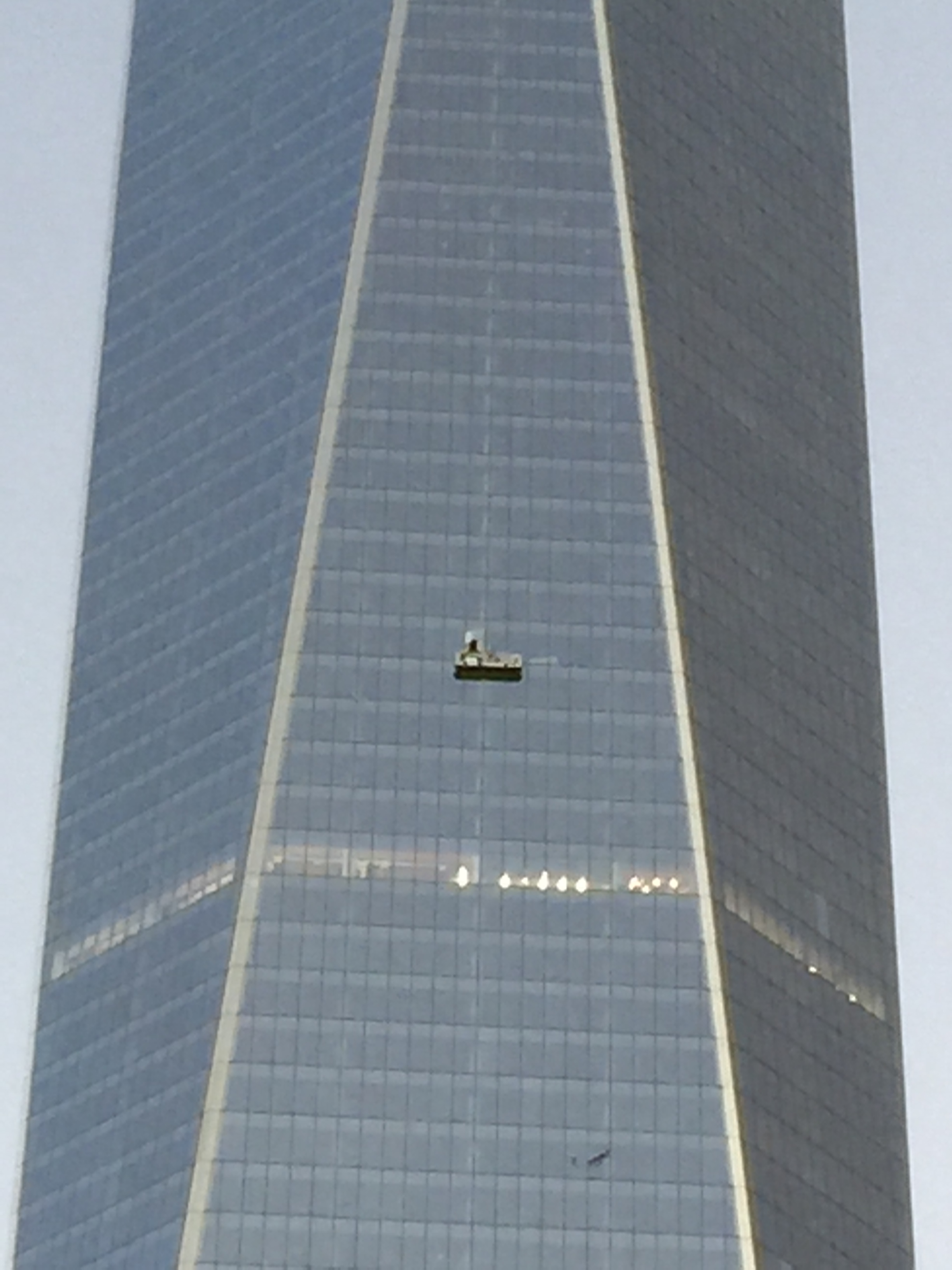 new_york_world_trade_scaffold_incident_november_12_2014